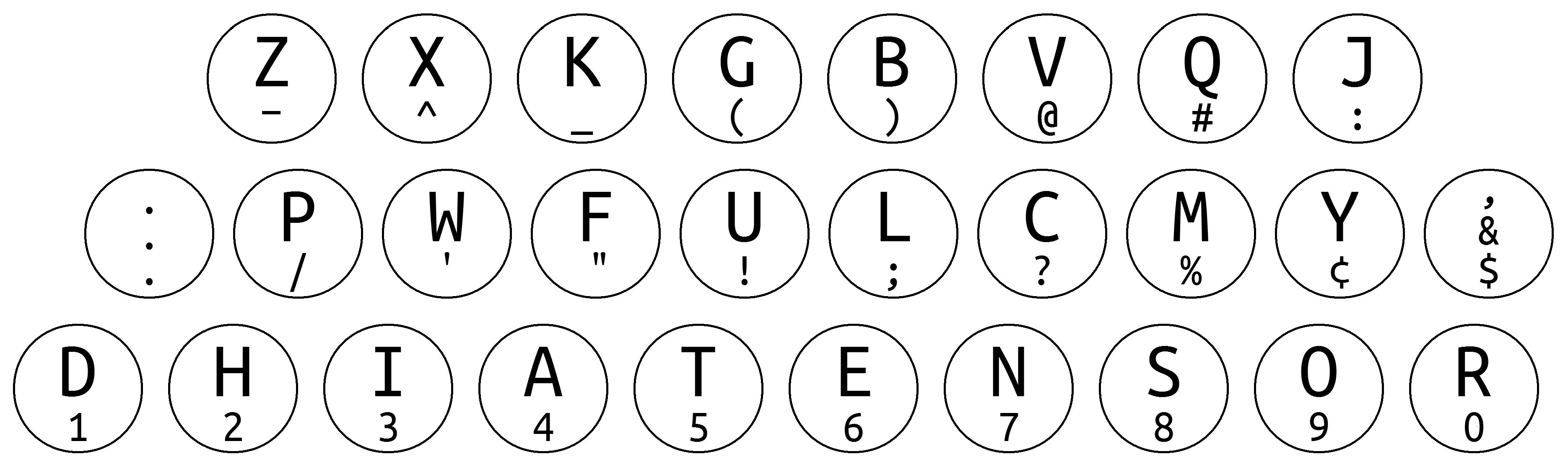 Keyboard layout of the USA version of several Blickensderfer models produced about 1900 to 1920.